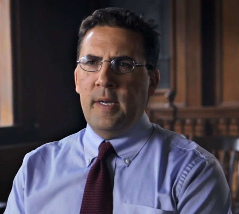 David F. Holland in the 2016 film By Study and Also By Faith.